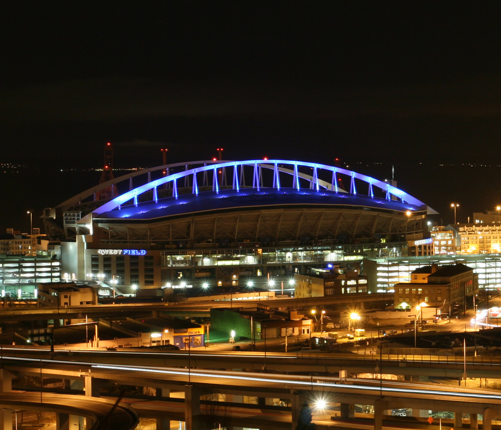 Picture taken by me of Qwest Field at night from Dr. Jose Rizal Park in Seattle, WA.